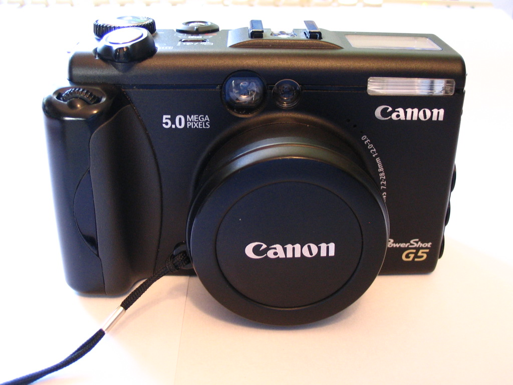 Canon PowerShot G5 camera